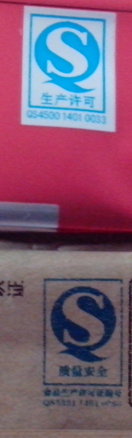 China Quality Safety logo